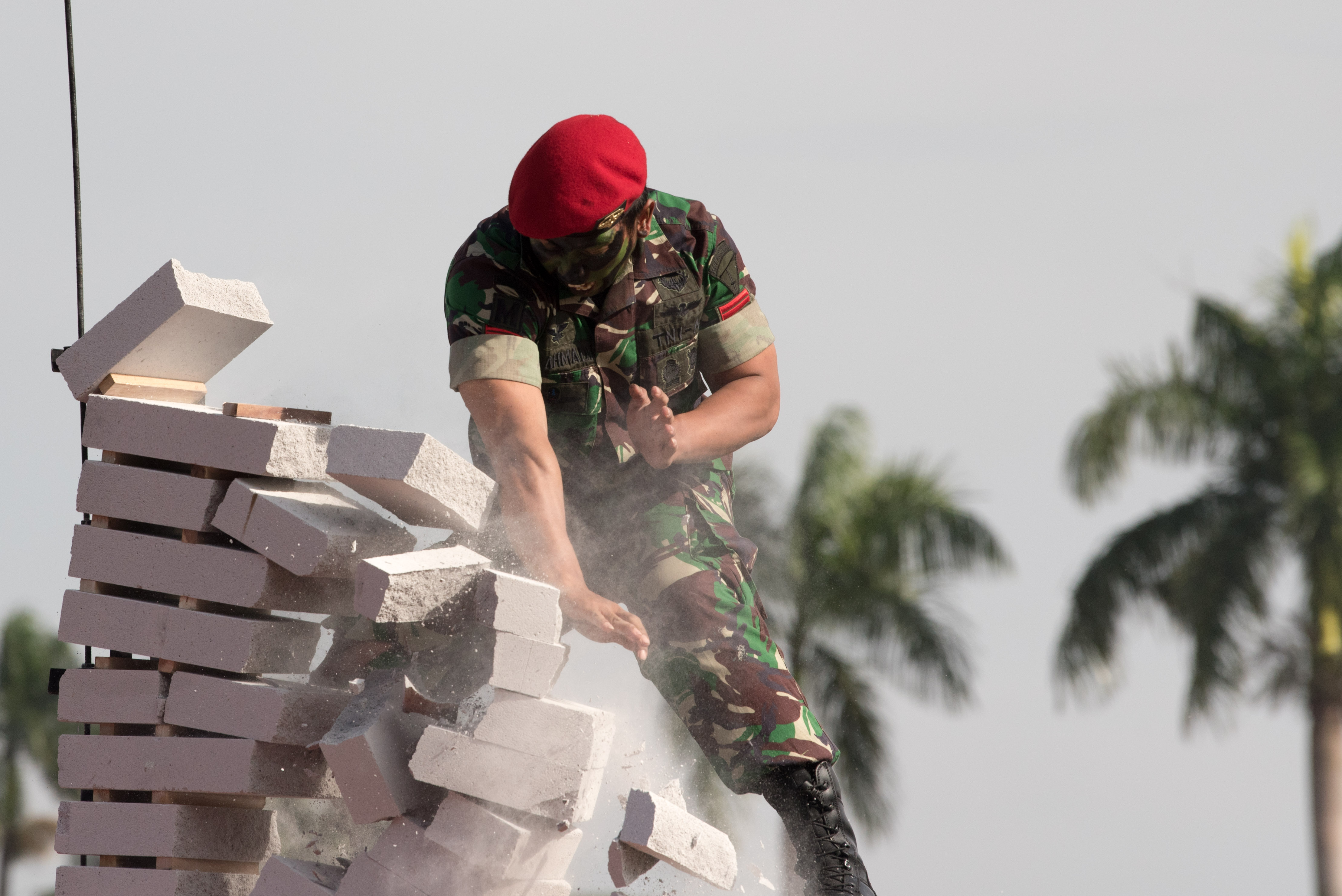 Members of the Indonesian Special Forces hold a demonstration in honor of Defense Secretary James N. Mattis before Mattis met with Indonesia's Chief of Defense Marshal Hadi Tjahjanto in Jakarta, Indonesia on Jan. 24, 2018. (DoD photo by Army Sgt. Amber I. Smith)